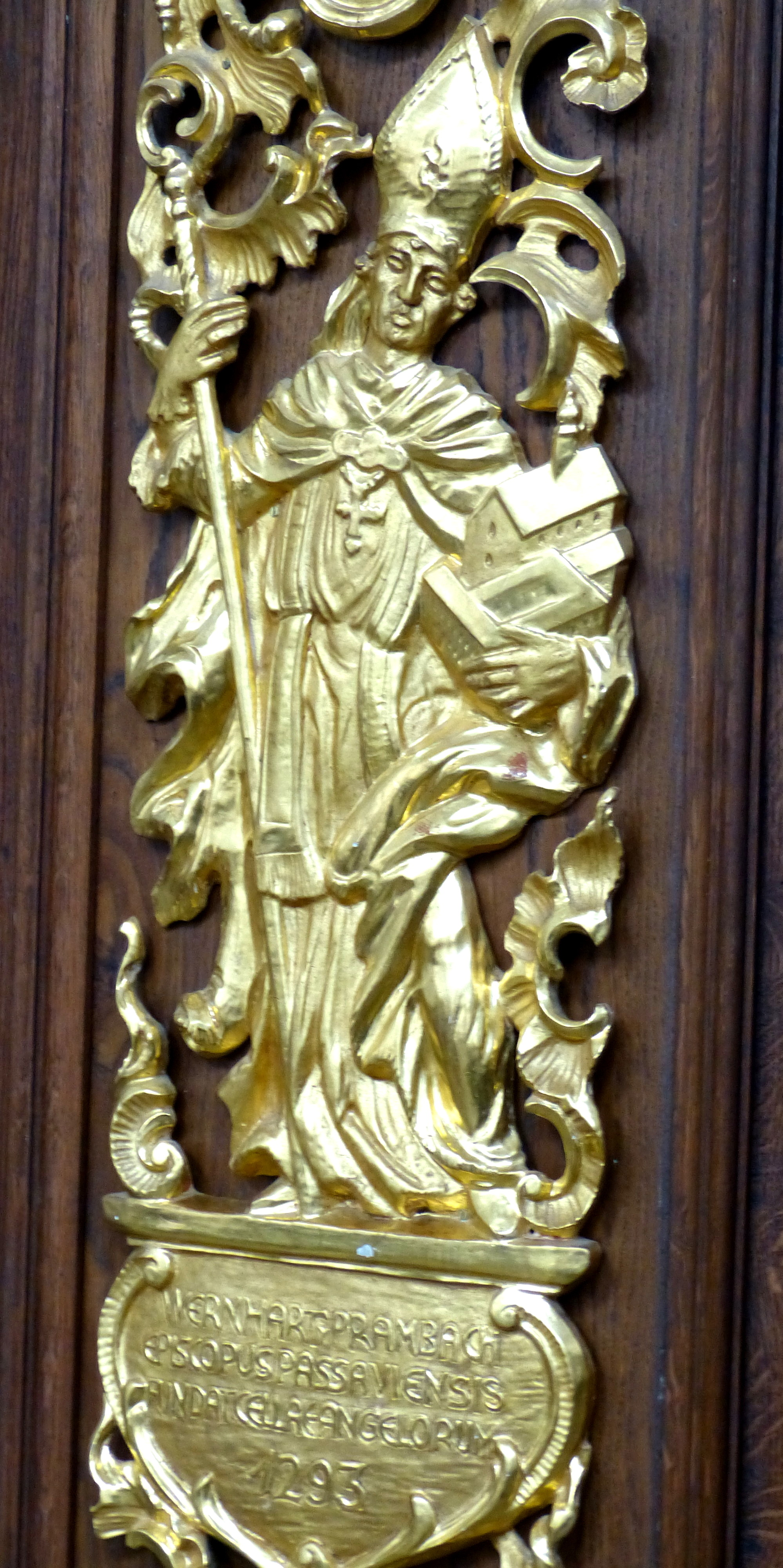 Engelhartszell ( Upper Austria ). Engelszell monastery church ( 1754-64 ) - Door ( 20th century ) from monastery to church, by Josef Plattner: Relief of Wernhart of Prambach, bishop of Passau and founder of the monastery.